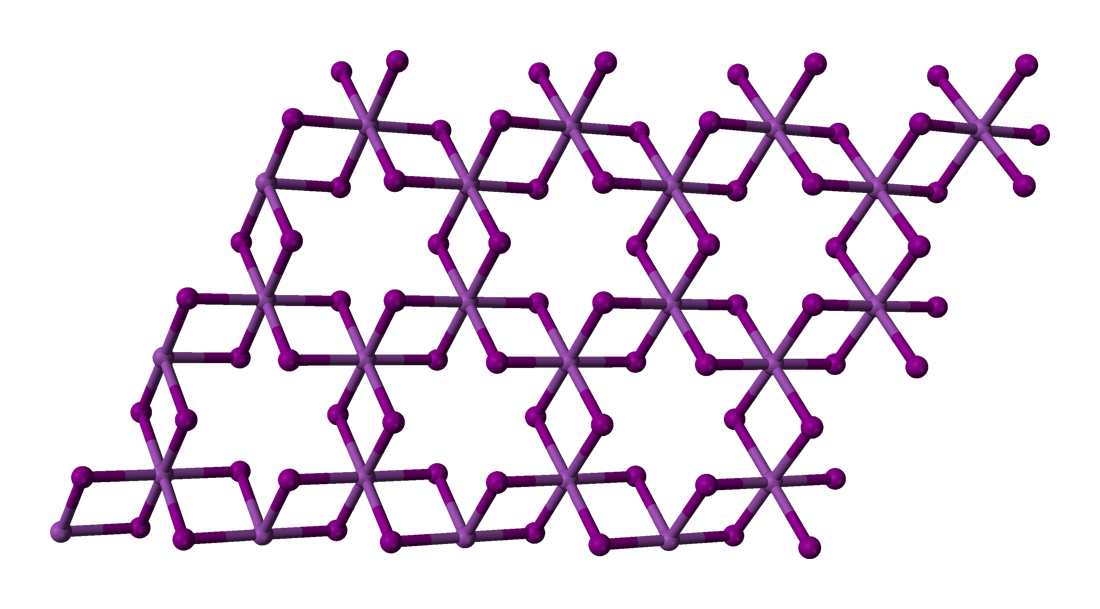 Ball-and-stick model of part of a layer in the crystal structure of bismuth triiodide, BiI3. Structural data from ChemTube 3D and UWI, possibly based on J. Trotter, T. Zobel, Z. Kristallogr., (1966), 123, 67-72. Model constructed in CrystalMaker 8.1. Image generated in Accelrys DS Visualizer.